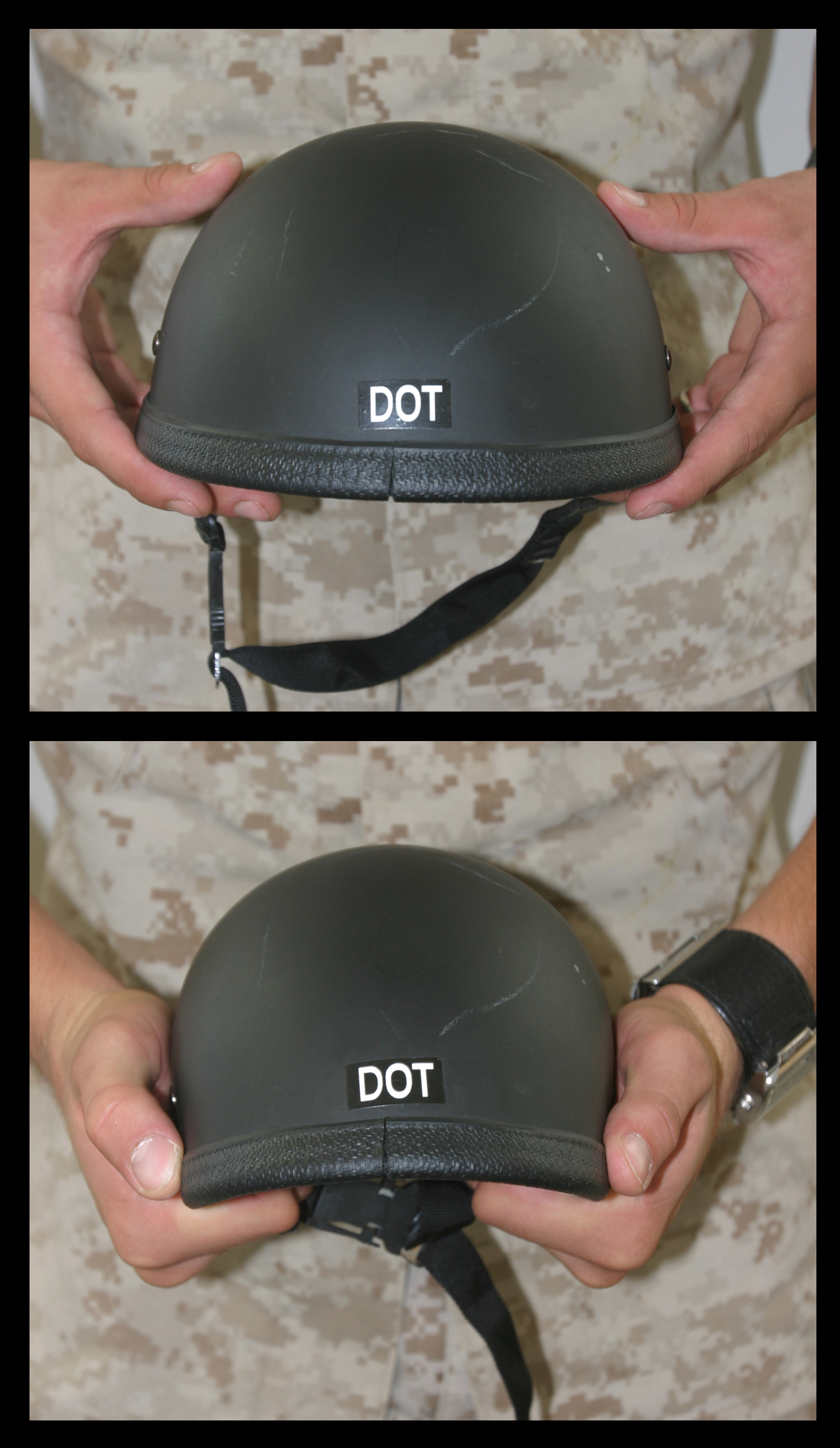 MARINE CORPS BASE CAMP LEJEUNE, N.C. (Oct. 3, 2006) - This is a non-DOT approved, novelty helmet that was confiscated from a Marine riding and wearing it on base. Notice the flexibility of the shell.